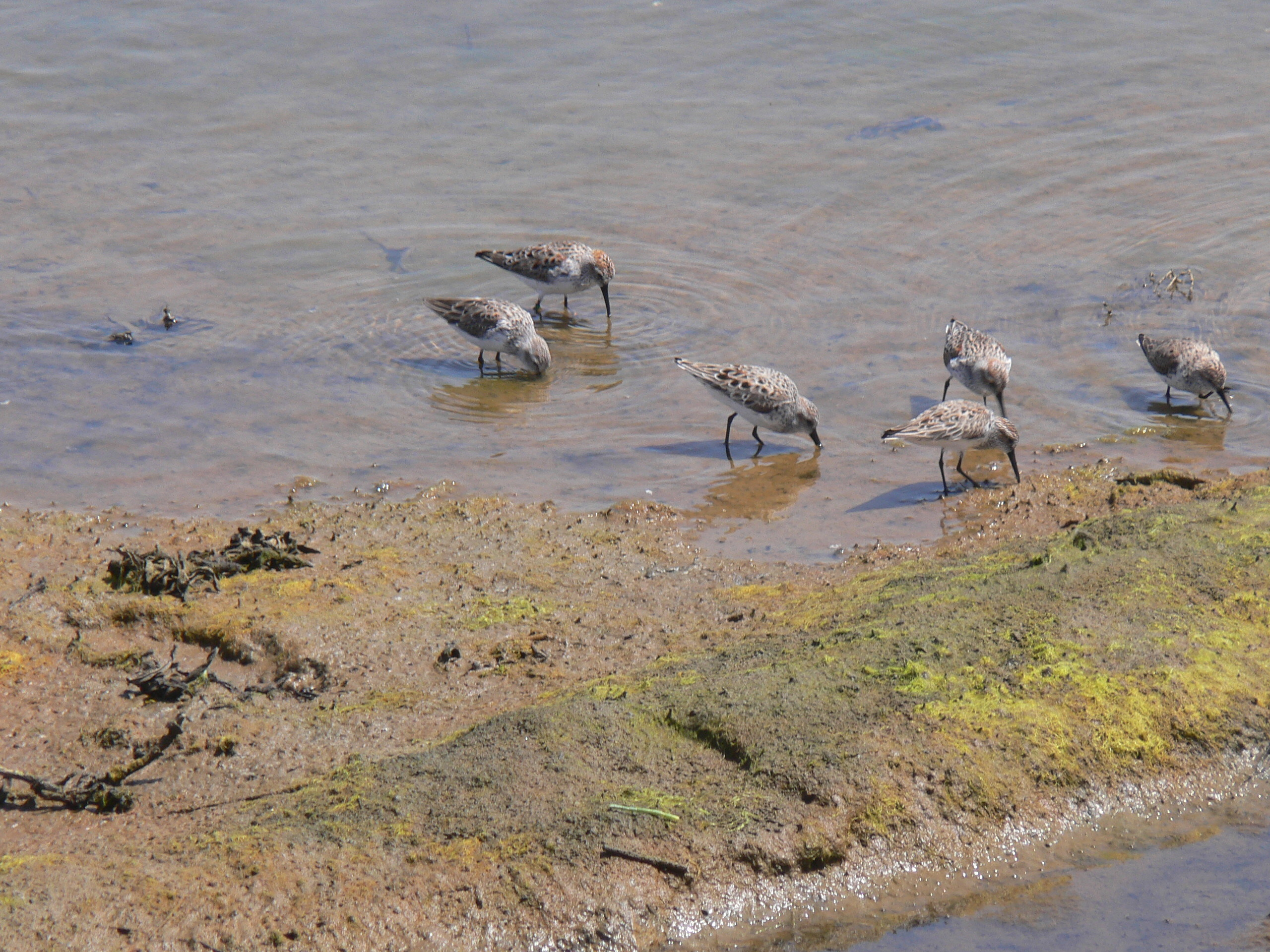 Western Sandpipers in Bolsa Chica Ecological Reserve ( Huntington Beach, California ).